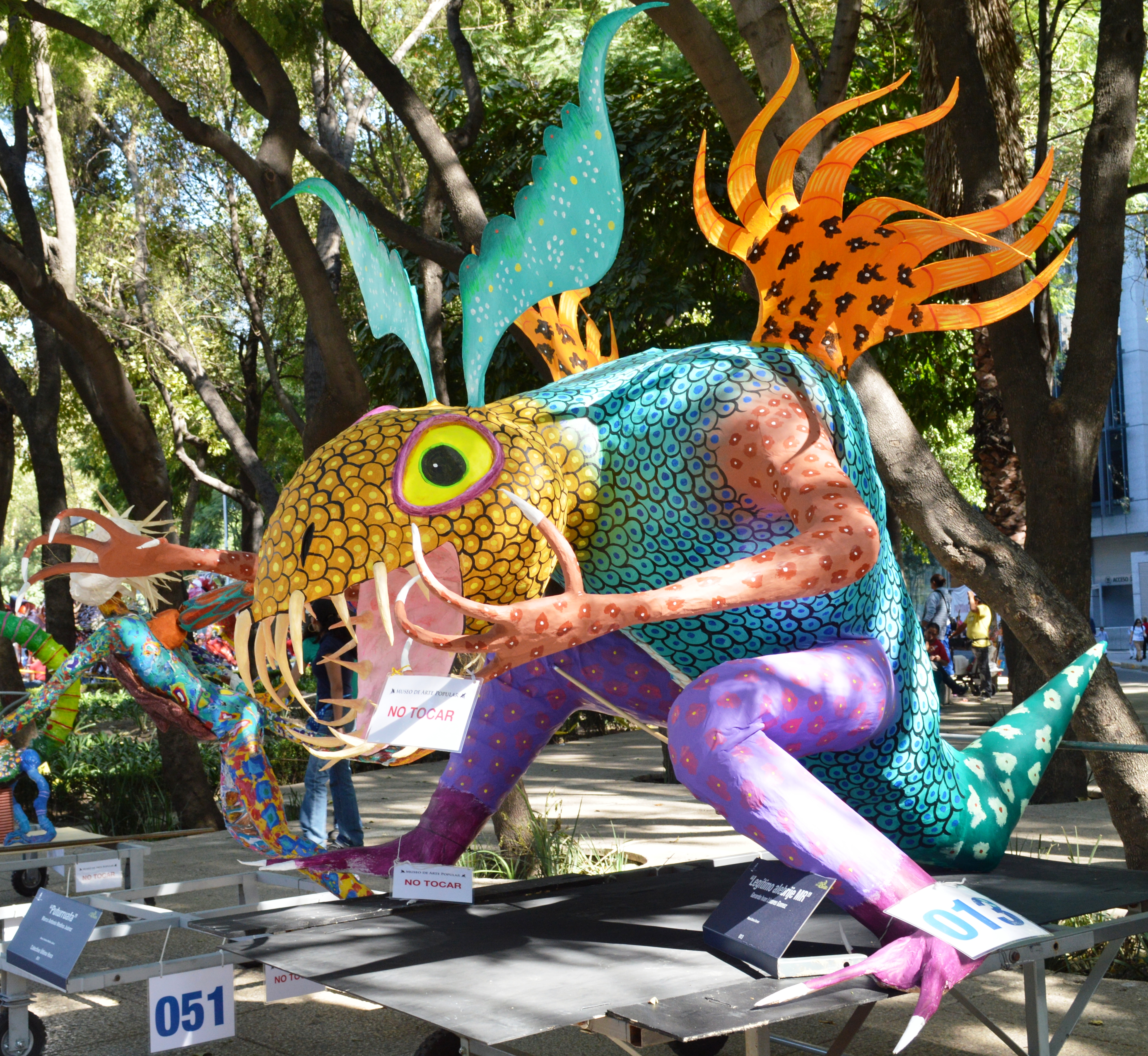 Legitimo Alebrije MR by Gerardo Ivan Linares Gomez at the Alebrije Parade and contest of the Museo de Arte Popular in Mexico City